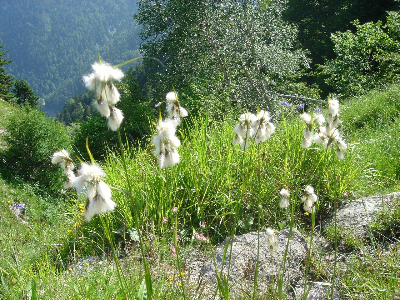 Eriophorum angustifolium